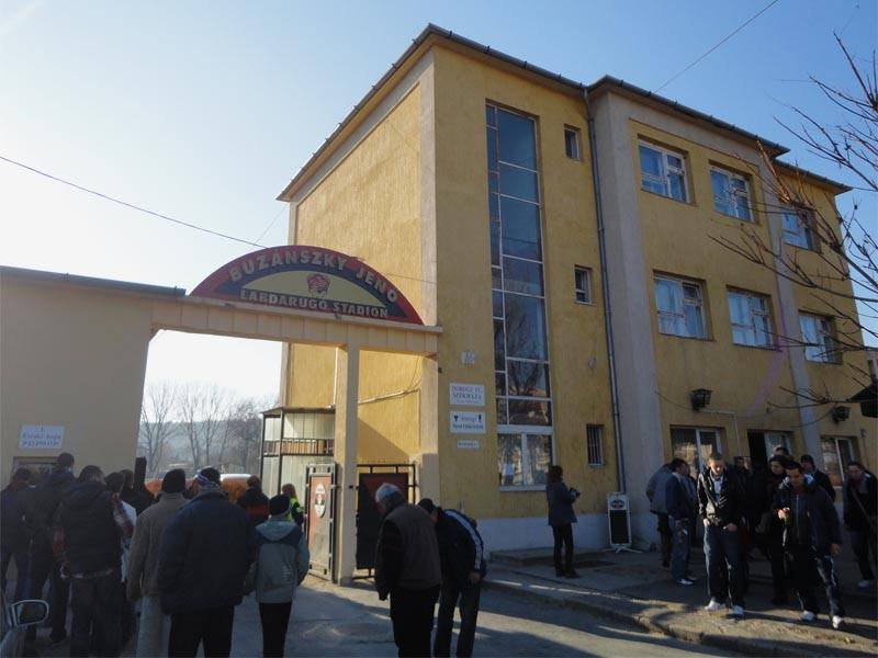 The ticket change of the fans before the match at the cashier of the northern gate